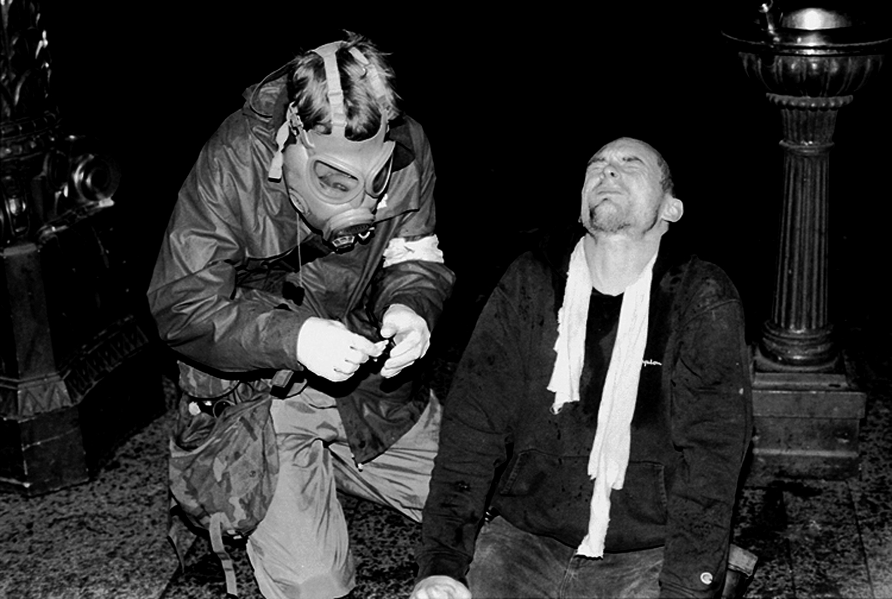 This was shot at the WTO protests Seattle, 1999. Please wear goggles to a riot, or you will be like this. I have many more from the 3 days of outrage venting that was WTO 1999.